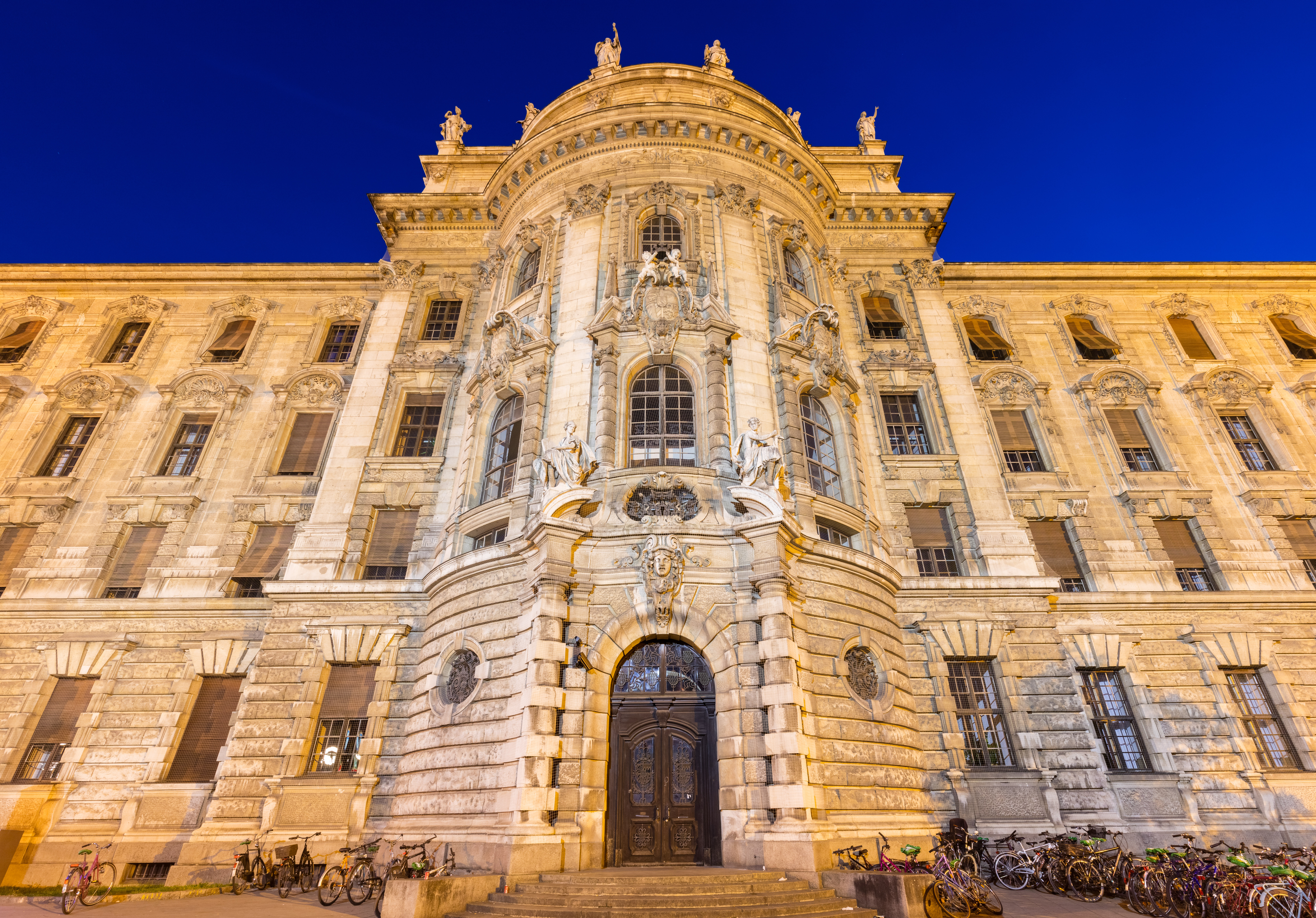 Palace of Justice, Stachus, Munich, Germany